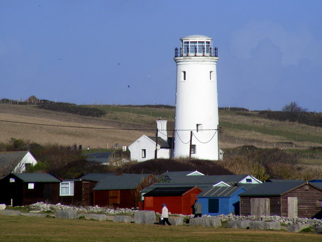 The Old Lower Lighthouse at Portland Now known as the Portland Bird Observatory and Field Centre it has wonderful views over the English Channel.